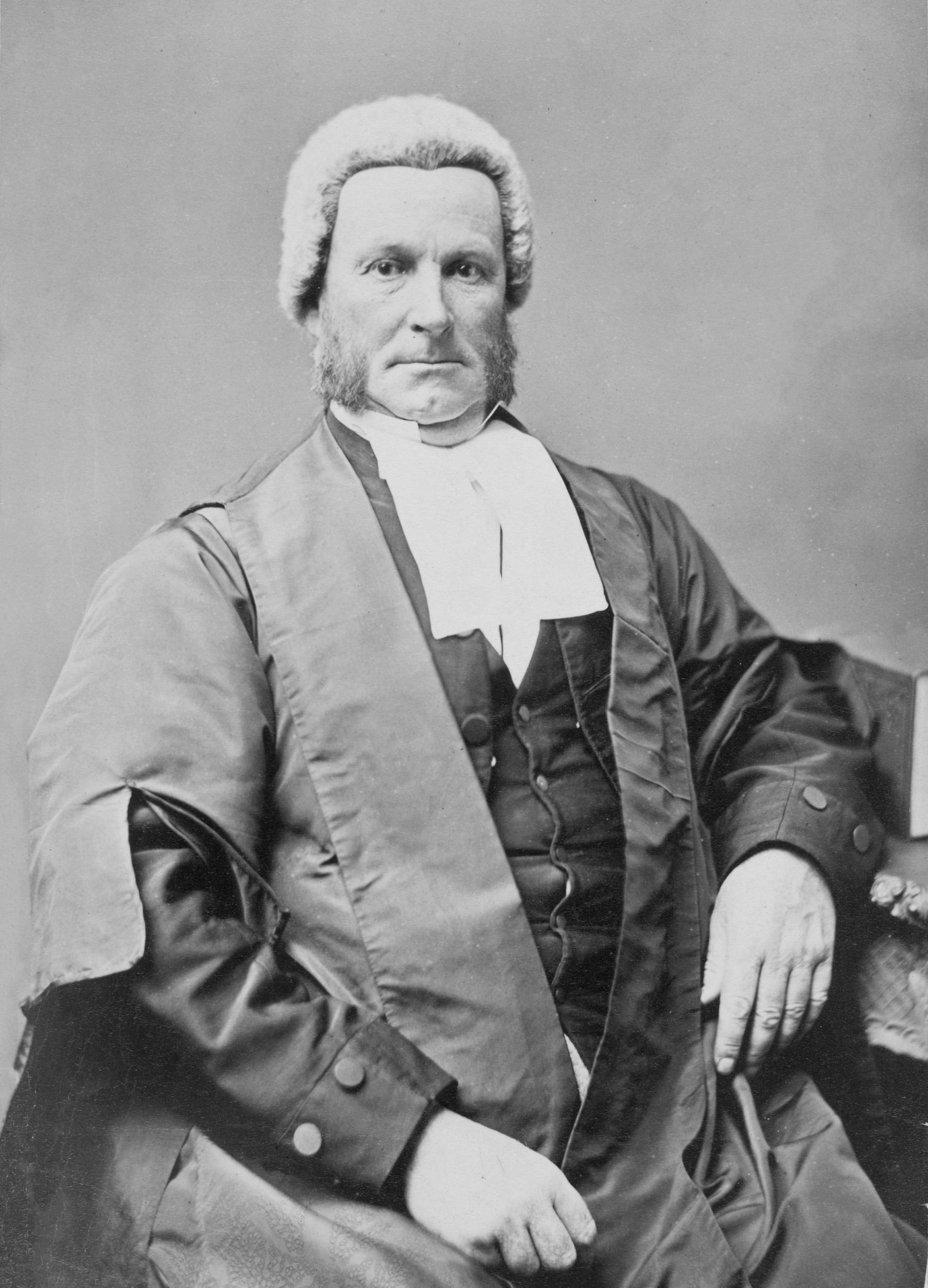 Sir William Stawell, second Chief Justice of Victoria, 1857-1886